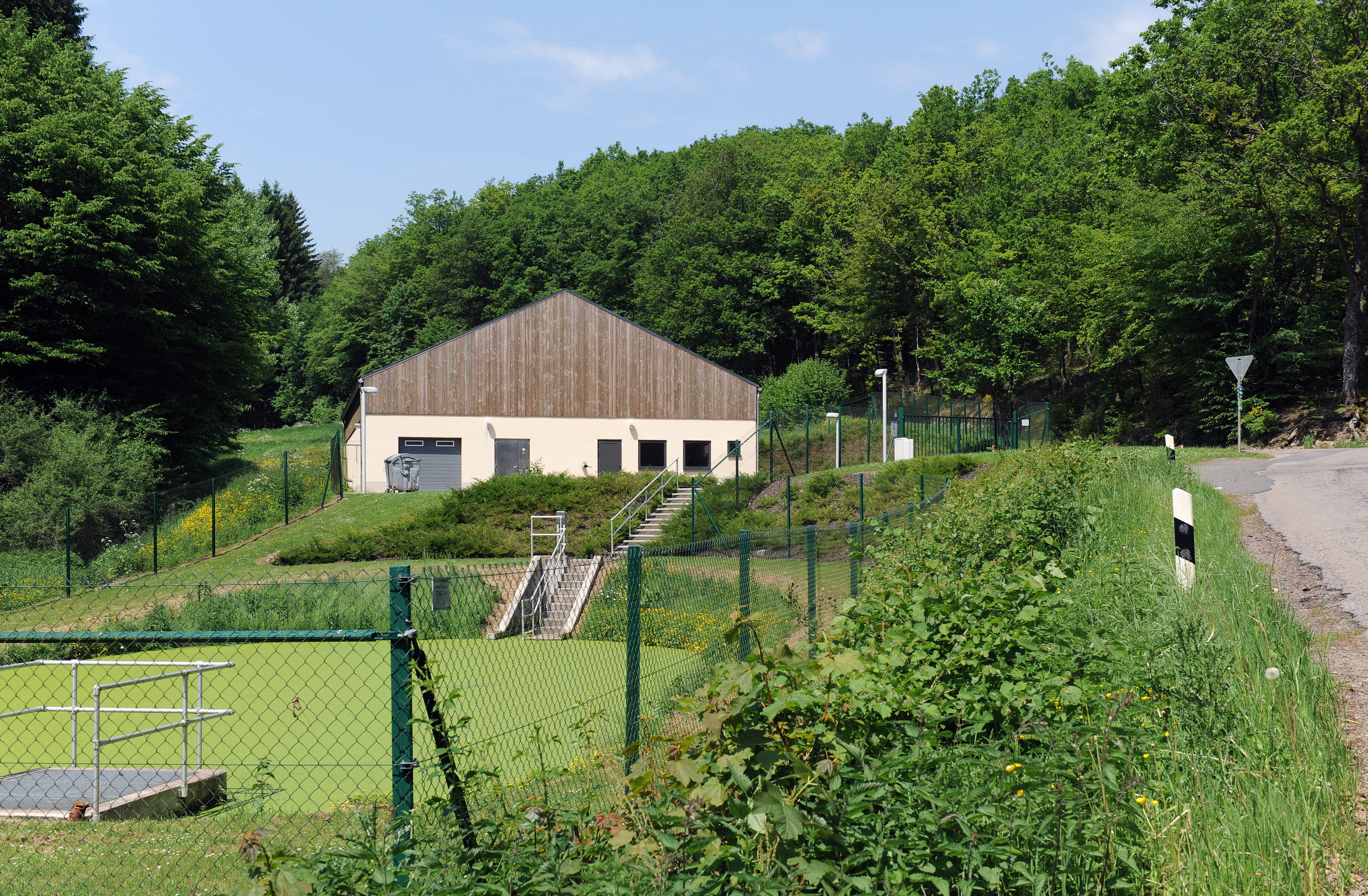 Luxembourg: sewage treatment plant Tintesmuhle in the valley of the Our river. The plant treats the sewage water of the villages Heinerscheid, Kalborn and Tintesmuhle.